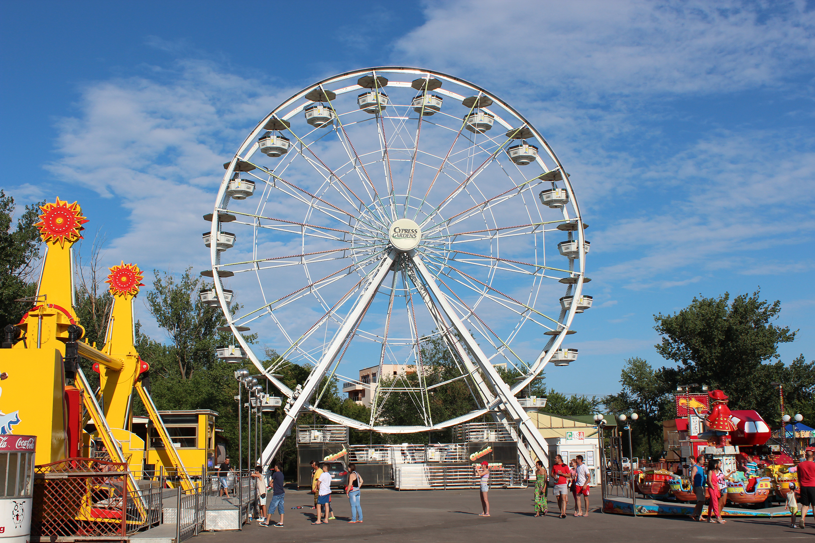 A Ferris wheel, which still has the original Cypress Gardens paint scheme, in its permanent home of Mamaia, Romania.